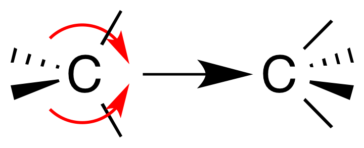 Inverted tetrahedral geometry at carbon